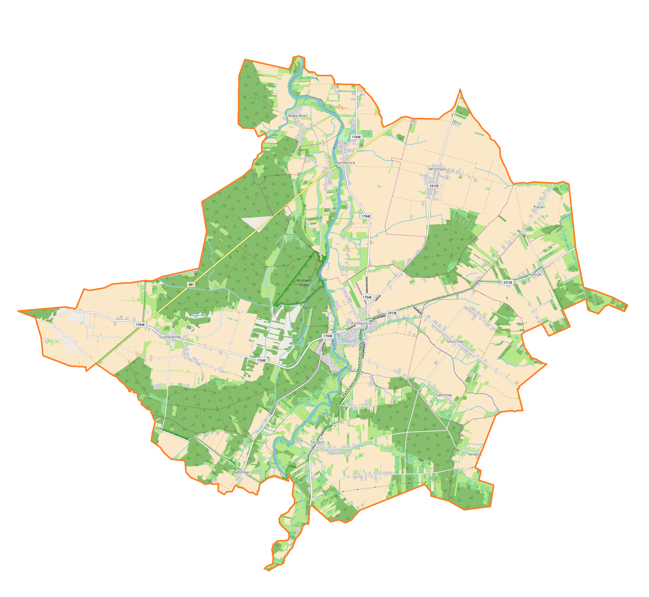 Location map